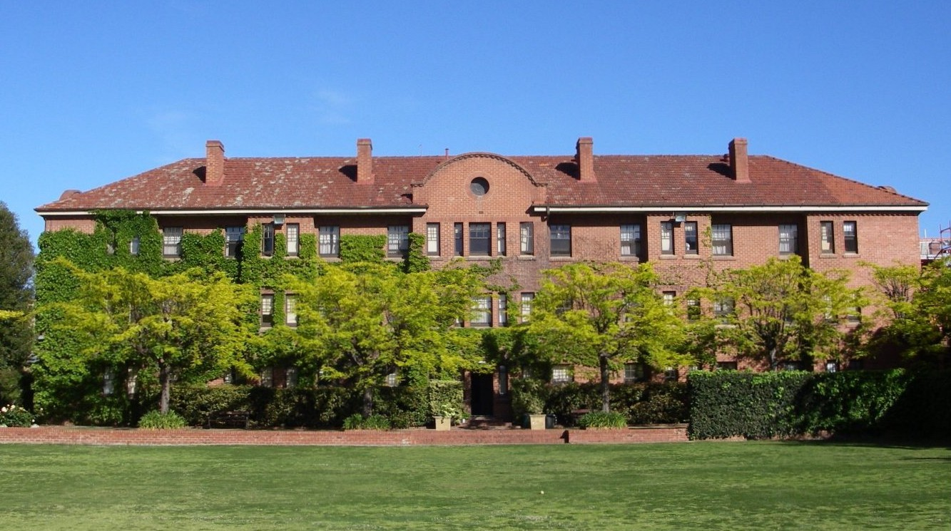 Newland Building, housing mainly first-year students, is typical of the architecture at St. Mark's.